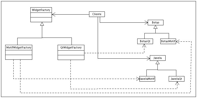 Abstract Factory Design Pattern by Luís Felipe Braga